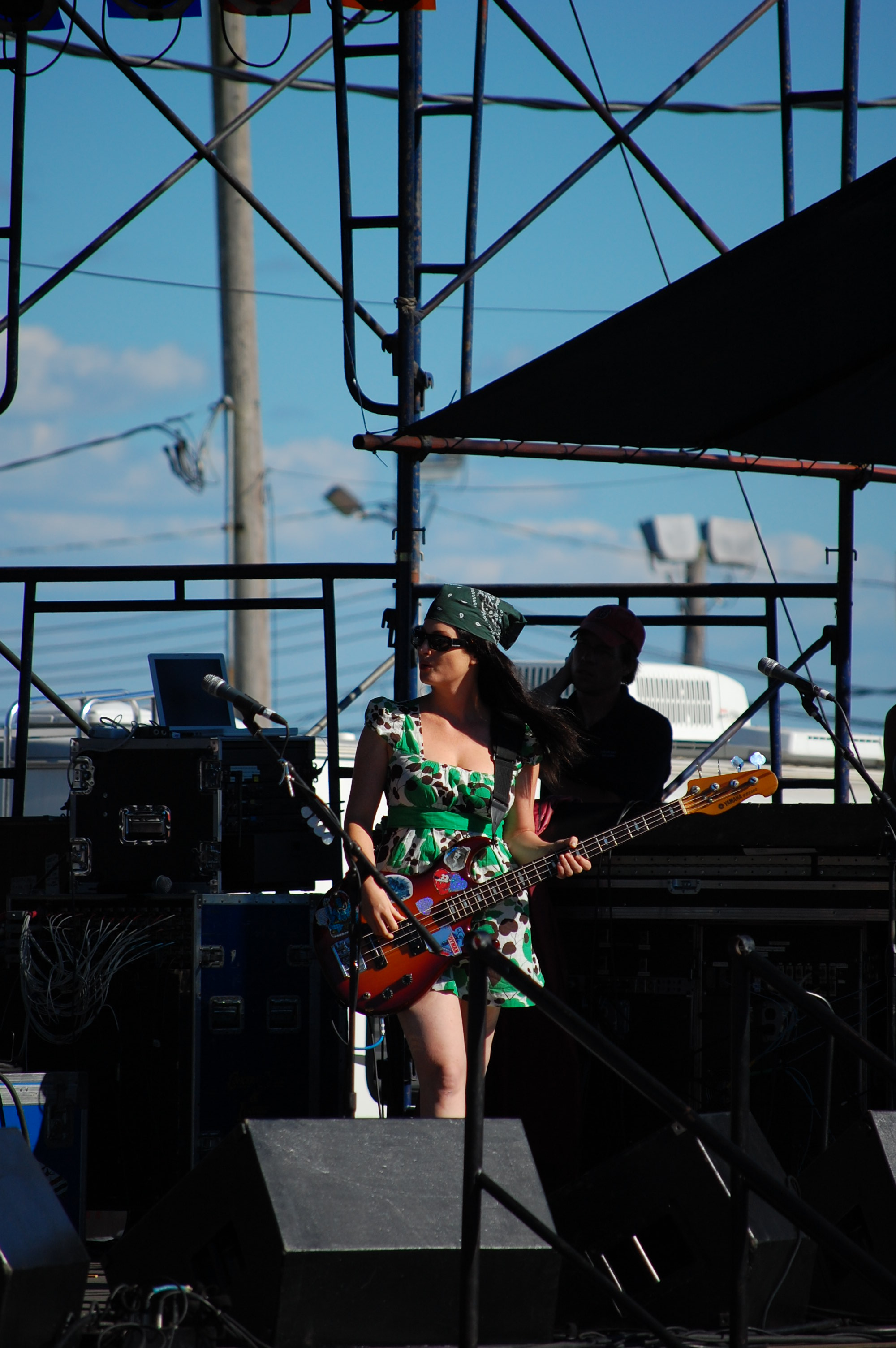 Abby Travis appearing with The Bangles on September 1, 2007 in Woodstock, CT.